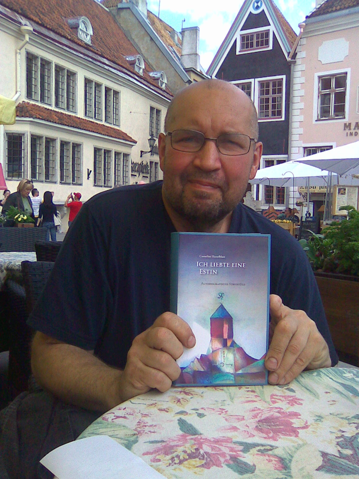 Estonian painter Rein Kelpman in Tallinn, May 2013, with one of his works